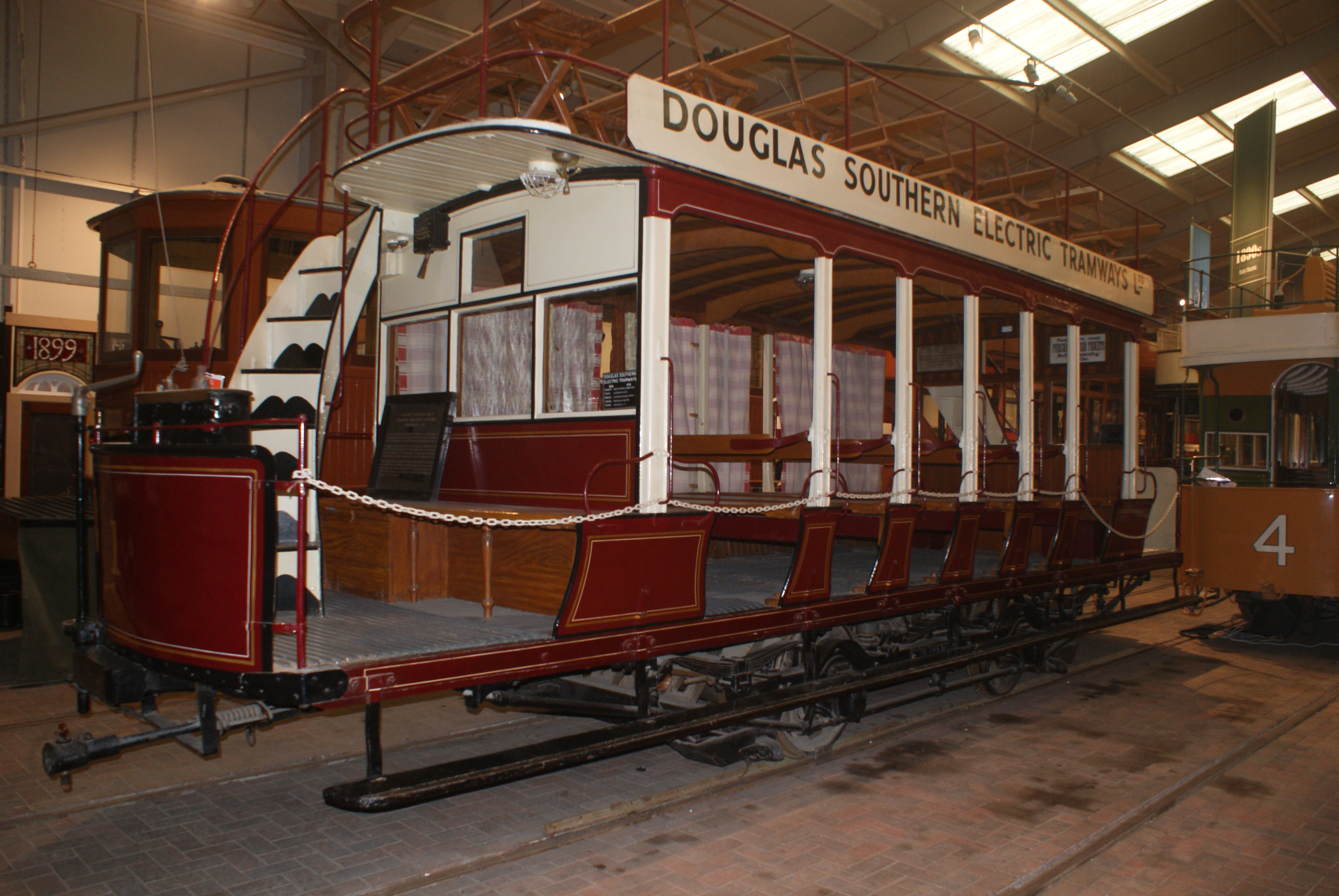 A surviving tram from the Douglas Southern Electric Tramway on the Isle of Man, preserved at the National Tramway Museum in Derbyshire